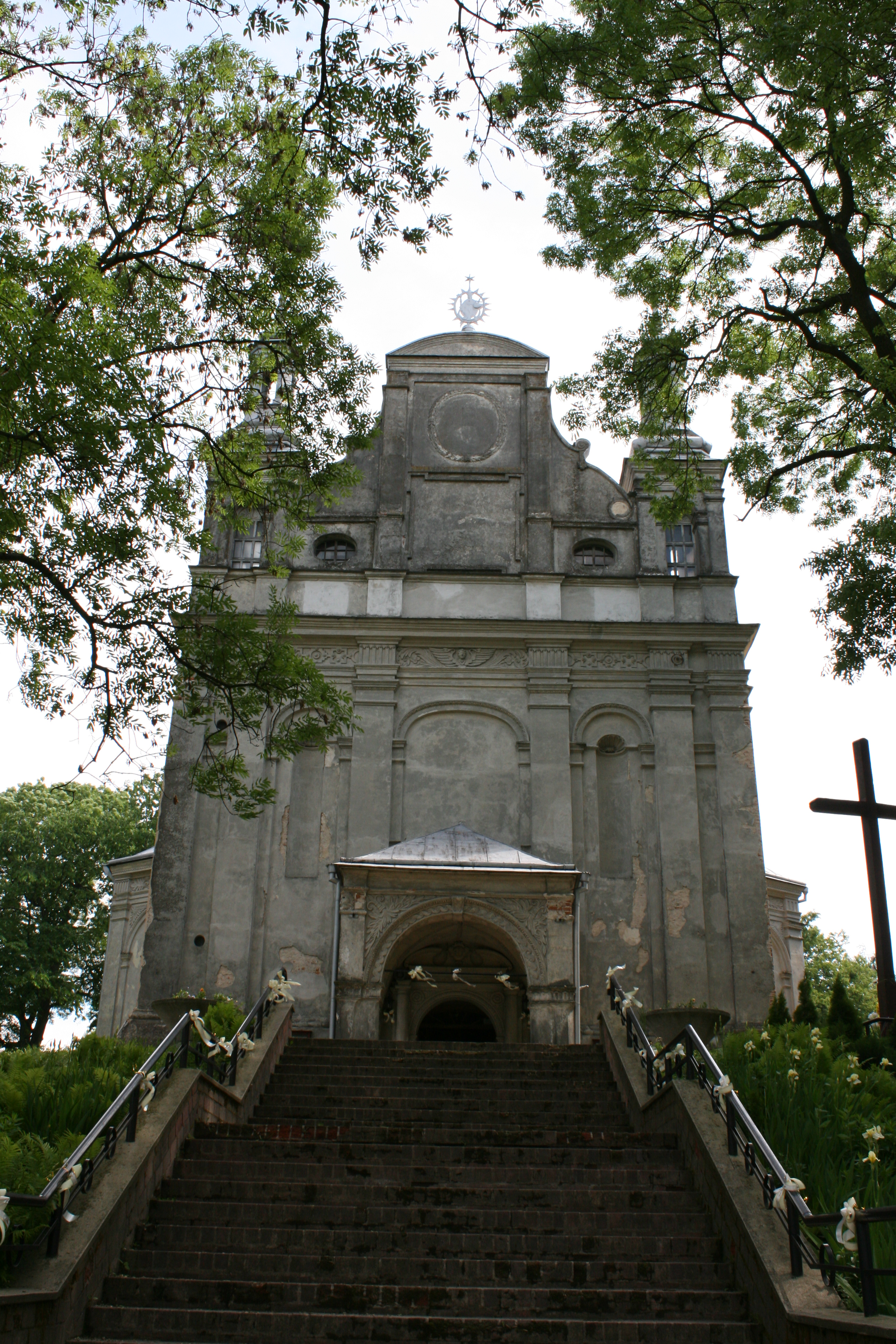 Church in Uchanie